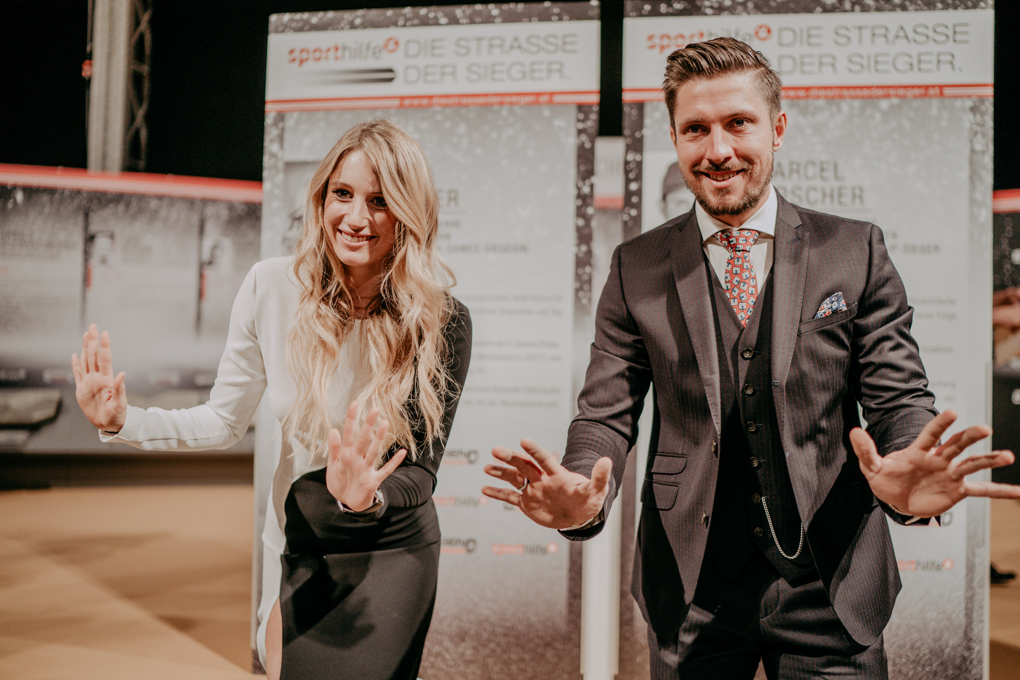 Anna Gasser und Marcel Hirscher nach ihren Abdrücken für die Straße der Sieger